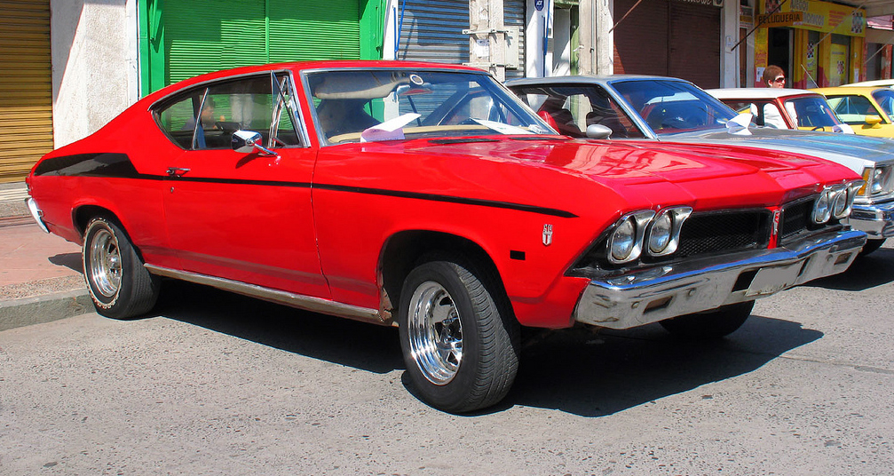 1969 Acadian Beaumont GTA in Chile